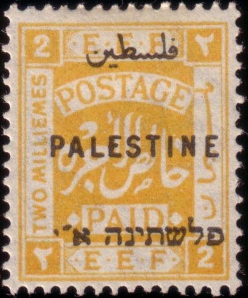 Palestine Mandate Stamp, SG no. 72, 2 MilliÃ¨mes, London II, issued 1922